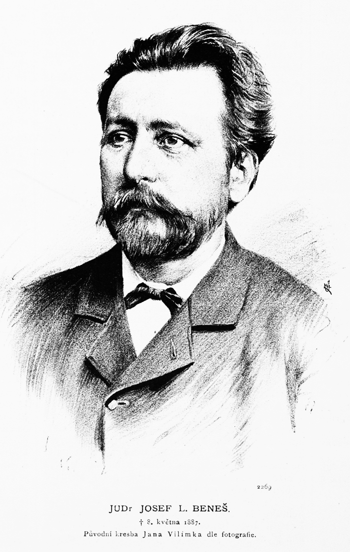 Portrait of Josef Leander Beneš (1830-1887), Czech lawyer and economist, teacher of business academy in Prague.